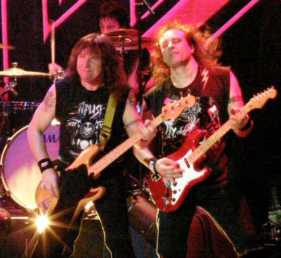 Vladimir Holstinin and Vitaly Dubinin, from heavy metal band Aria, performing at a show in Vladivostok